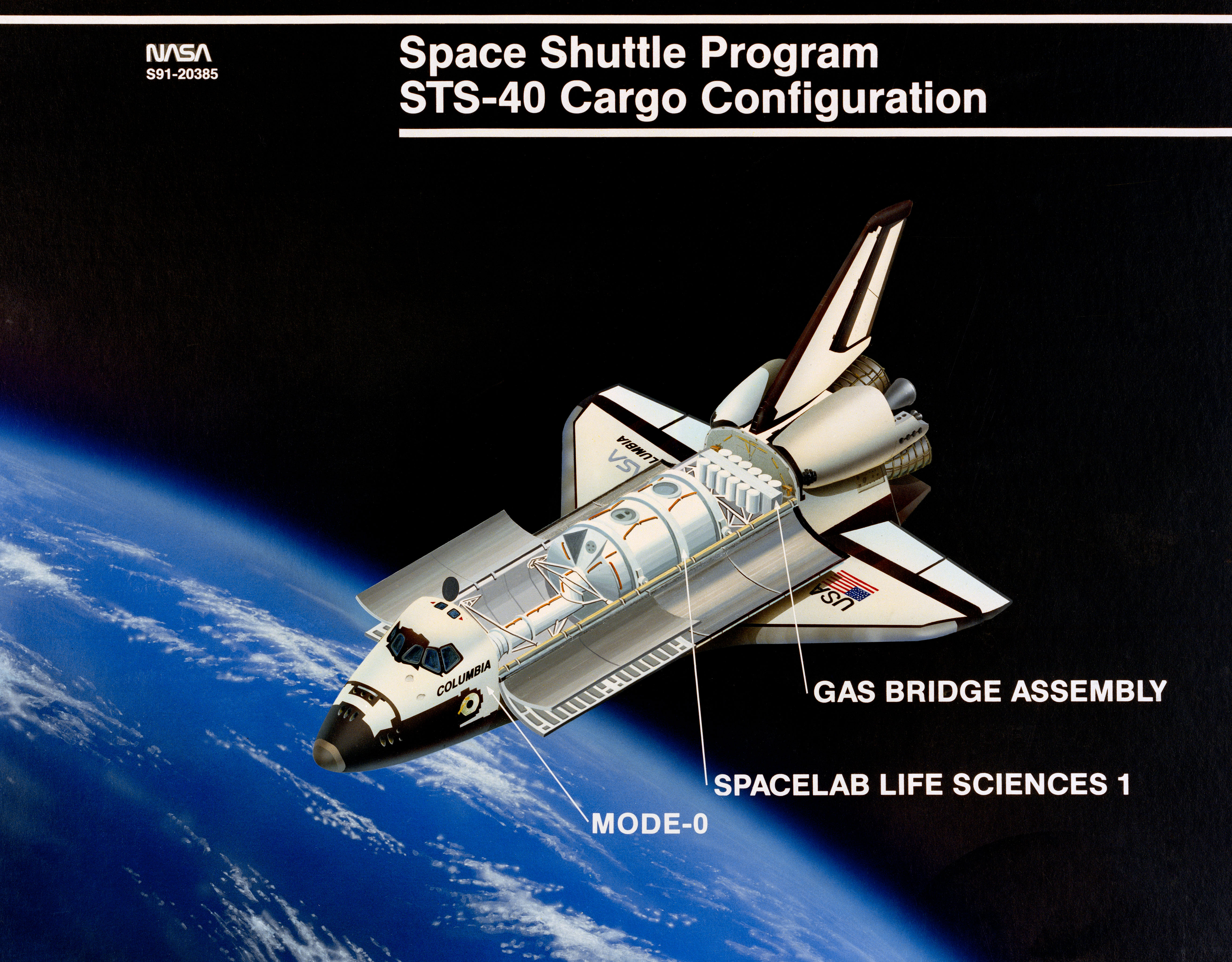 The Space Shuttle Columbia orbits Earth in this STS-40 art concept depicting the cargo bay arrangement for the Spacelab Life Sciences (SLS-1) mission. In the spring, three mission specialists and two payload specialists will join the commander and pilot for a scheduled nine-day mission, devoted to life sciences research, aboard Columbia.